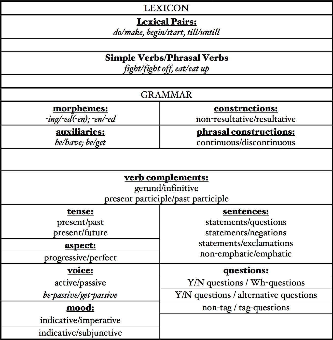 Table describing lexical oppositions